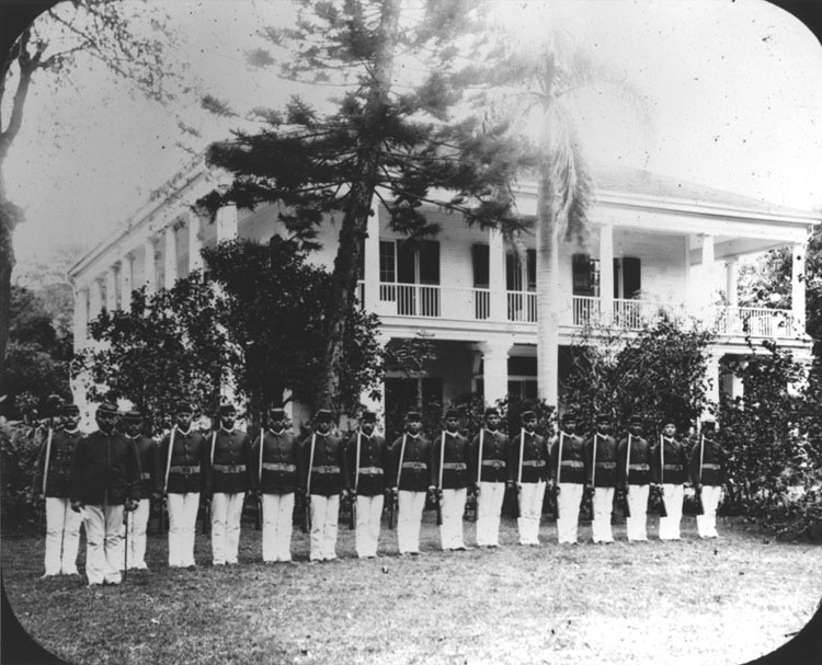 Royal Guards in front of the house of Queen Lili'uokalani (known as Washington Place), circa 1891–93. In February 1893, John L. Stevens wrote in his despatch to the U.S. State department that "there was no military force in the islands but the royal guard of about 75 natives, not in effective force equal to 20 American soldiers. These were promptly discharged by the Provisional Government, except 16 left as the guard of the fallen Queen at her house." John L. Stevens, United States Legation, Honolulu, February 1, 1893, Despatch 84, copy in Blount Report, 403–4. Pictured here are the "fallen Queen's house," Washington Place, and the guard of sixteen, plus their captain. Photograph by Hedemann, 1891–93. Courtesy of the Bishop Museum.